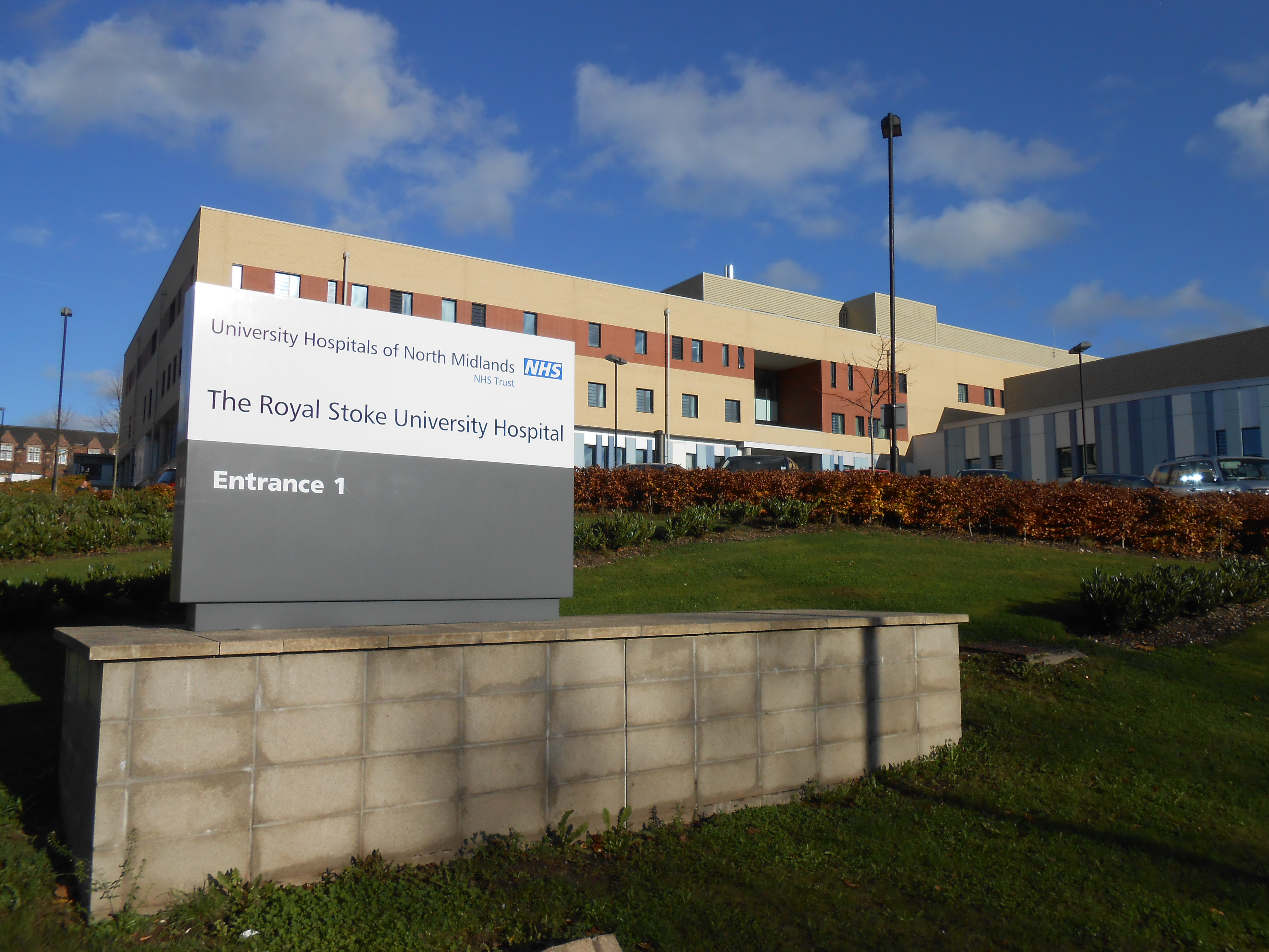 Photo taken at Entrance 1 of The Royal Stoke University Hospital, Newcastle Road, Stoke-on-Trent, England.